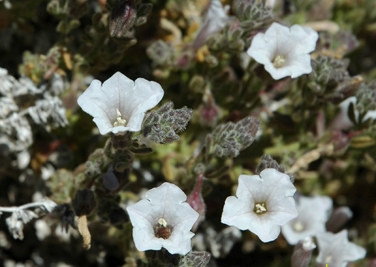 Flowers and Habit of Nolana leptophylla